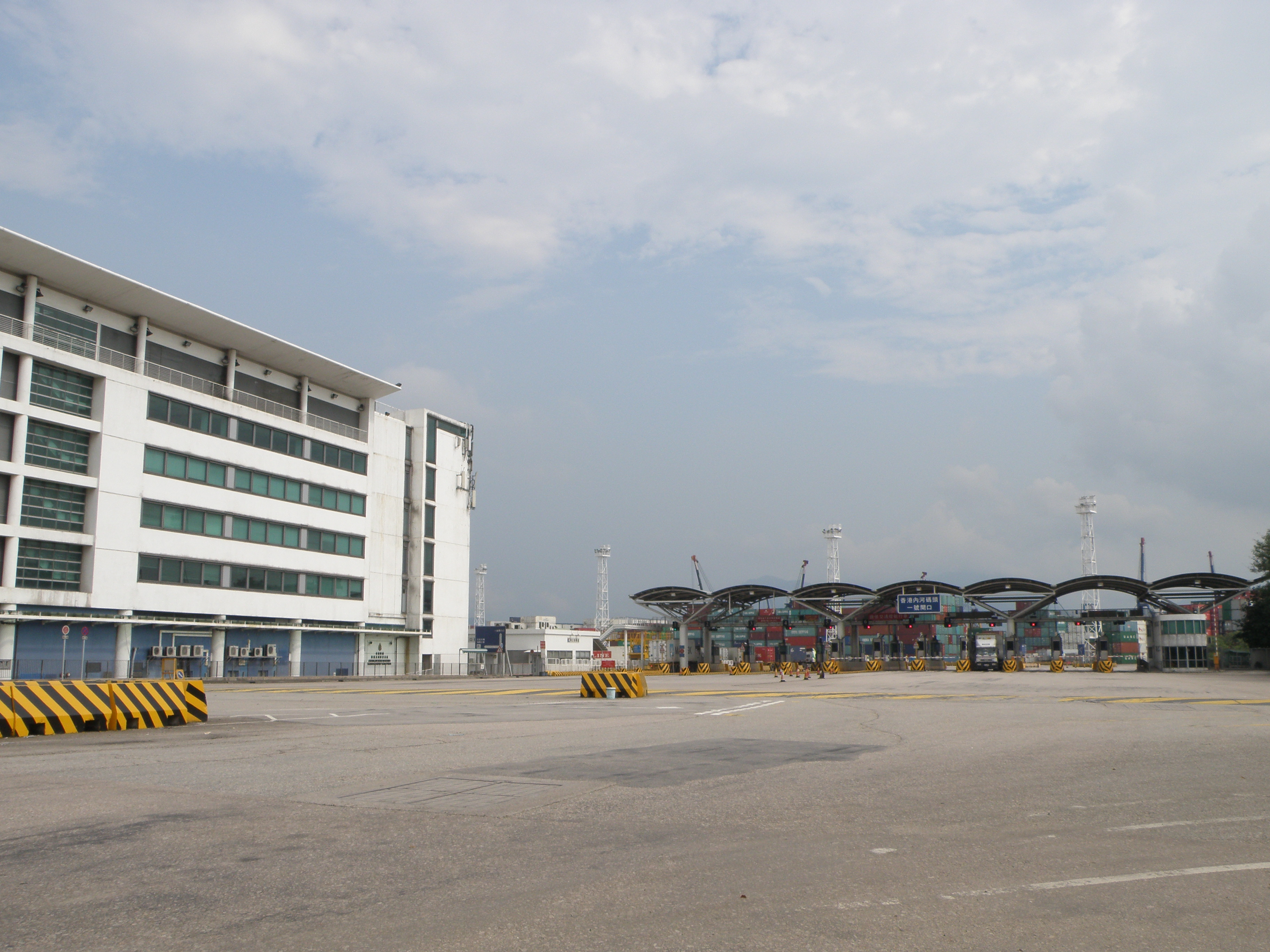 Access to River Trade Terminal facilities in Mong Hau Shek, Hong Kong. The building on the left houses the Customs and Excise Department Harbour and River Trade Division, Lung Mun Road.